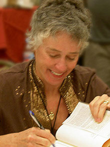 This was taken early afternoon of September 30, 2006 in Madison, WI. The occasion was one of the book signing opportunities at the annual Bouchercon World Mystery Convention.